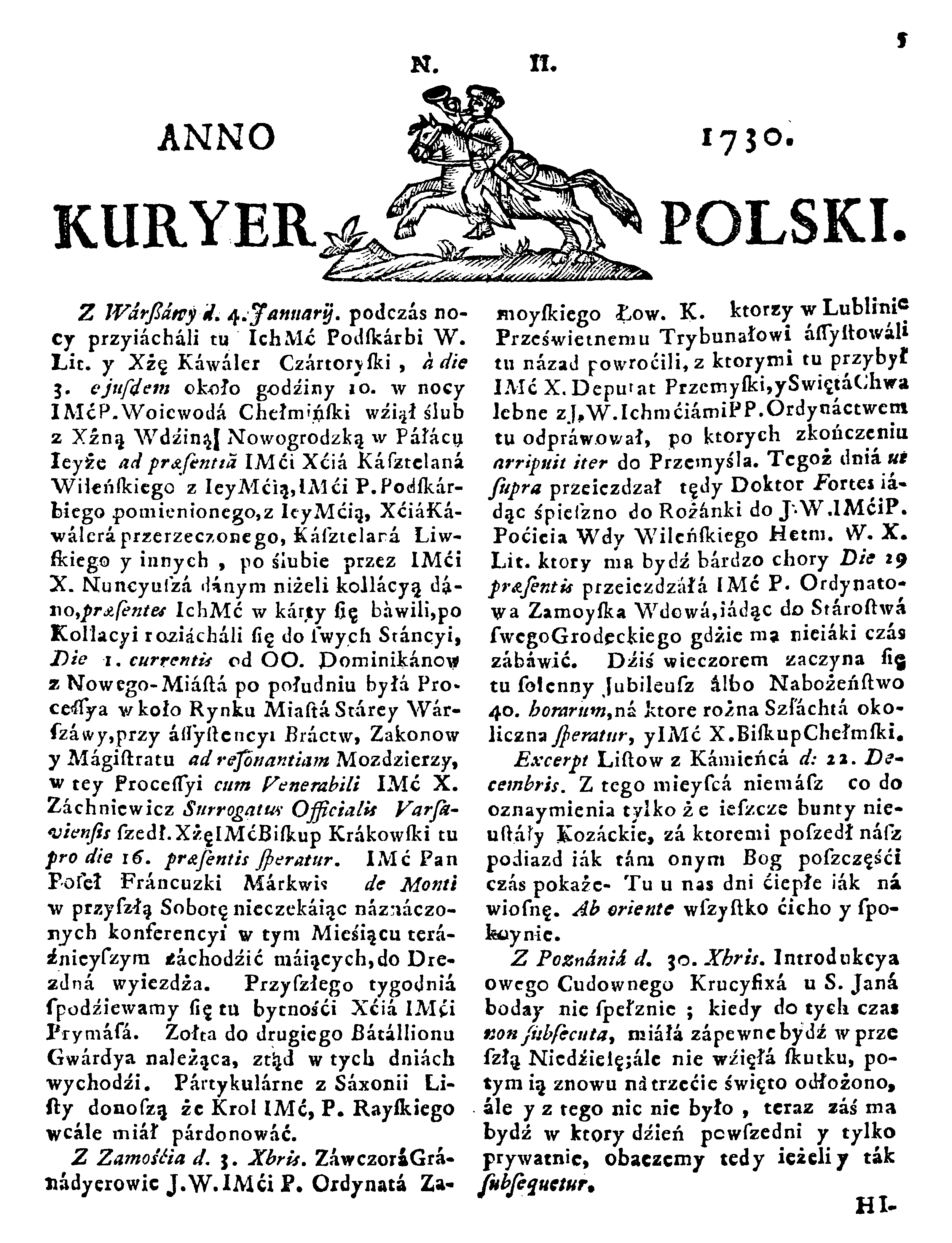 Kuryer Polski 1729-1760